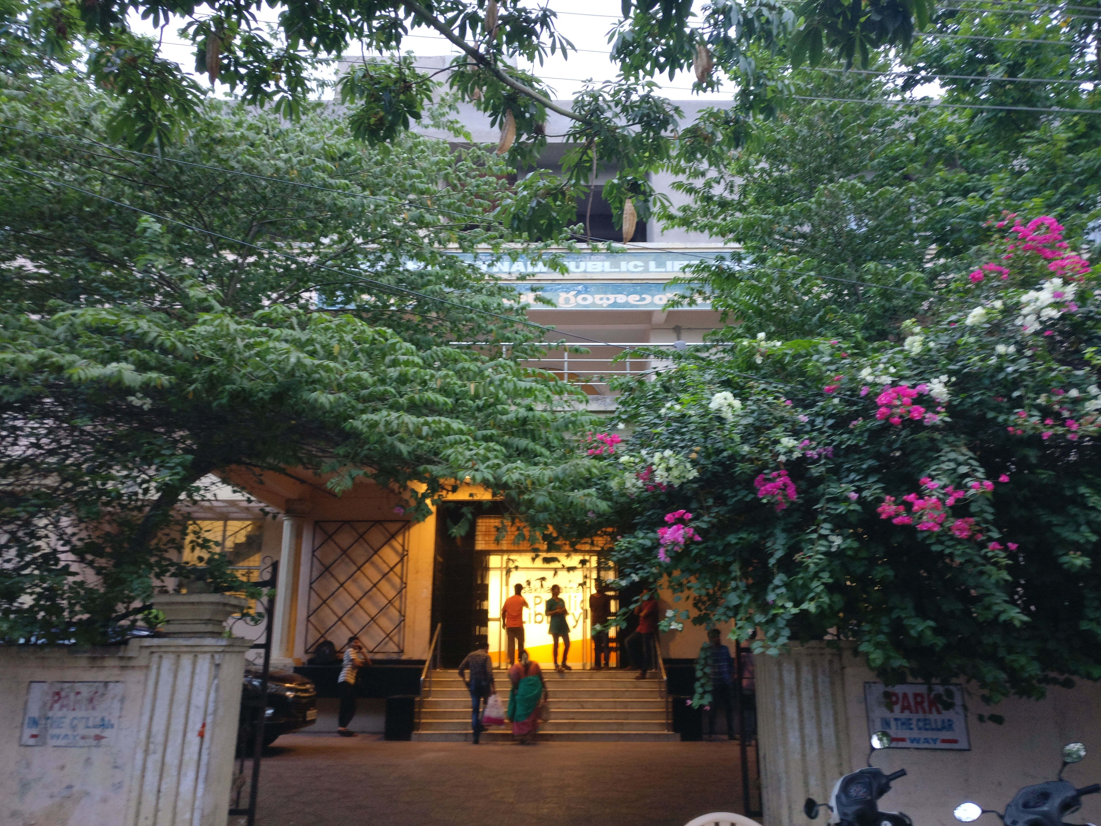 Entrance to Vishakhapatnam Public Library, Andhra Pradesh, India.